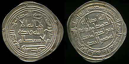 Picture of Umayyad Dirham, made of silver and belong to the era of Omar ibn Abdelaziz caliph of Muslims in 720 AD